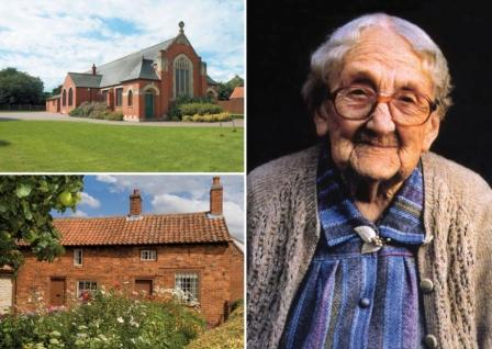 Top left: Navenby Methodist Church, bottom left: Mrs Smith's Cottage, Navenby, right: Mrs Hilda Smith († 1995), last occupant of Mrs Smith's Cottage